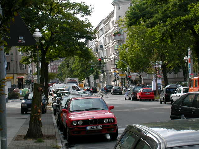 Kreuzberg street, corner of Nostitzstrasse and Gneisenaustrasse, oct '03, taken by myself, released under